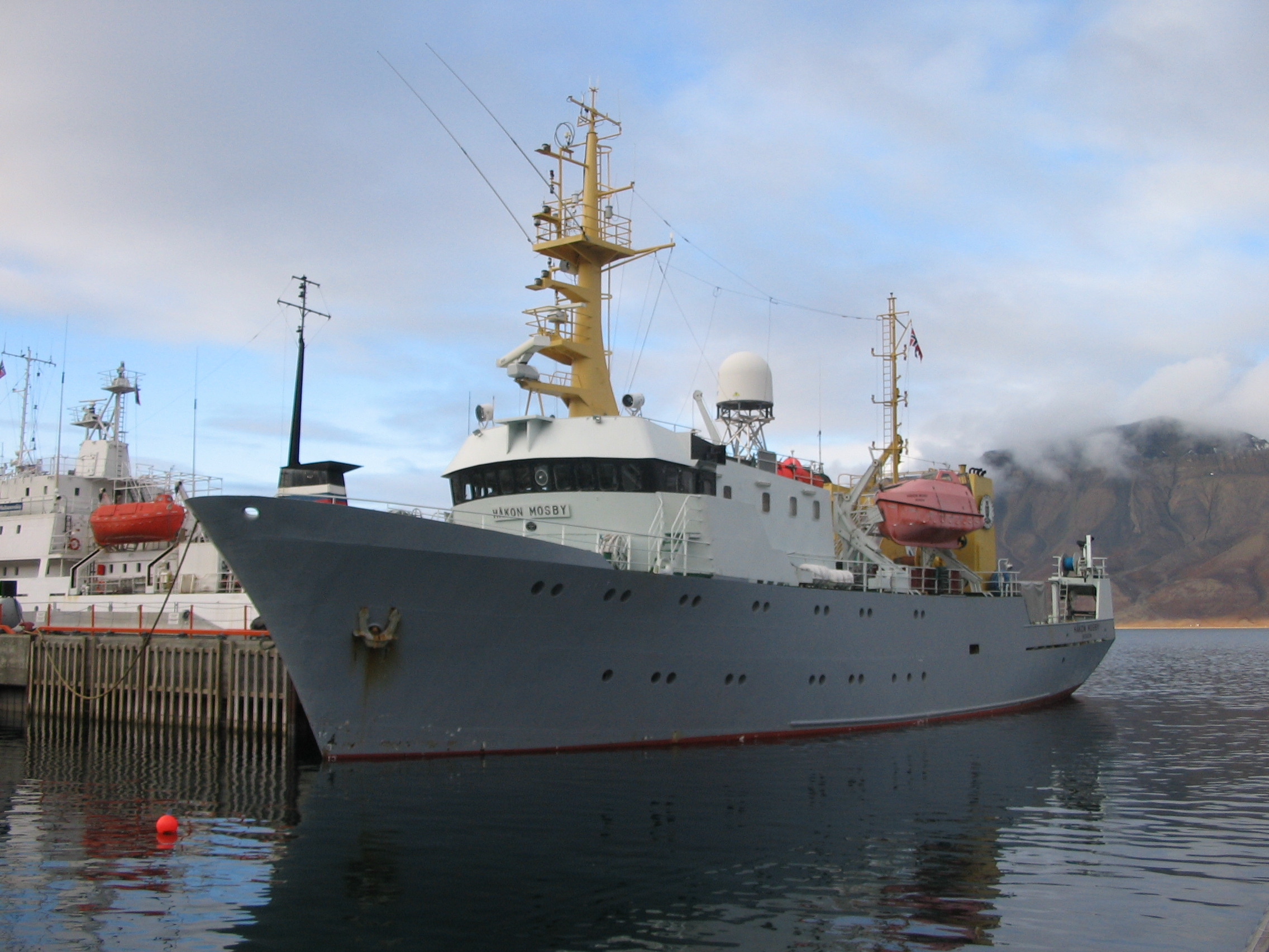 RV Håkon Mosby in Longyearbyen, Svalbard IMO Number: 7922233 MMSI Number: 258244000 Callsign: LJIT Length: 48 m Beam: 10 m